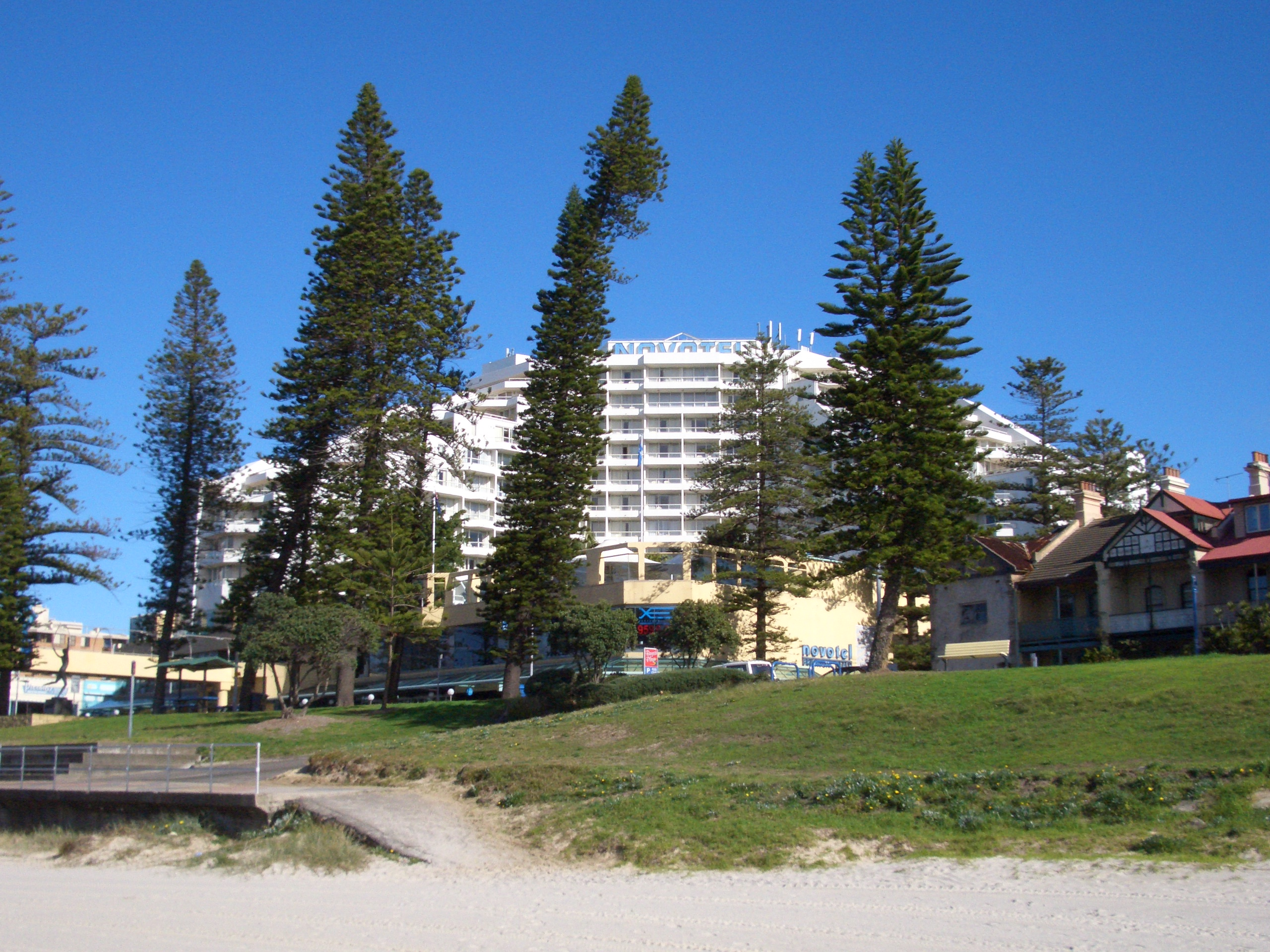 Brighton-Le-Sands, Sydney, Australia.